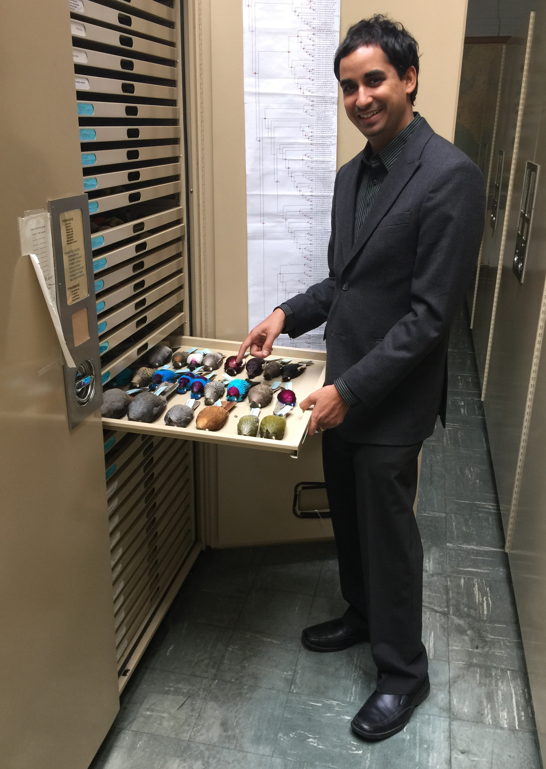 Prosanta Chakrabarty with zoological specimen (Louisiana State University, Museum of Natural Science)